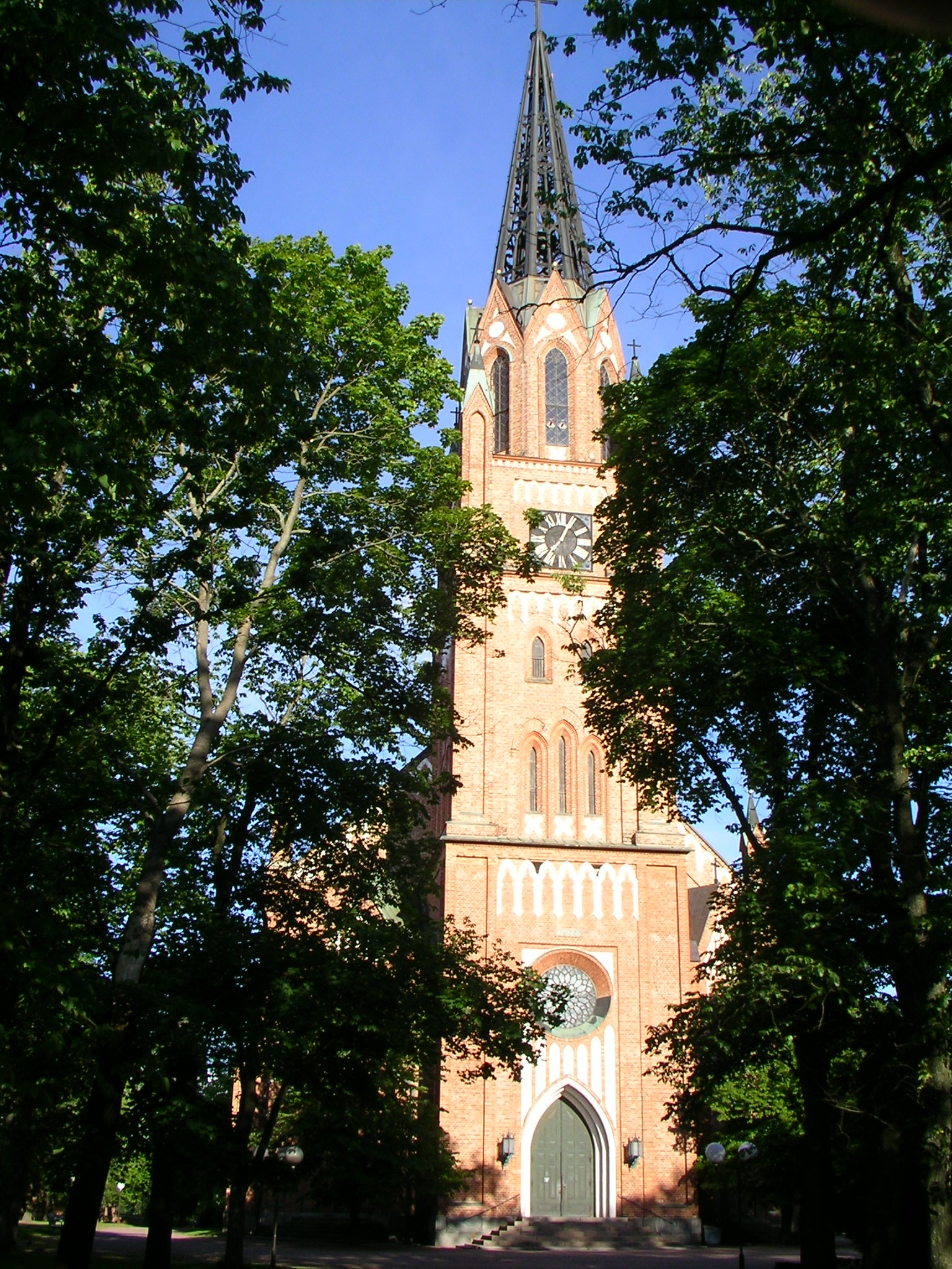 The Lutheran Church in Pori, Finland